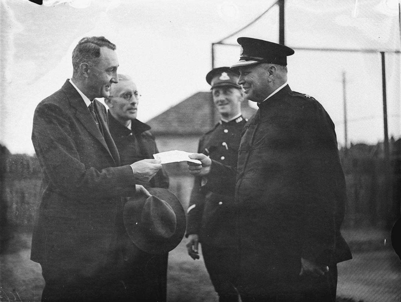 Inspector Dole presents R.S. Andrews, Director of Hornsby Hospital, with a cheque for 164 pounds (proceeds of a Police ball), Chatswood Police Station